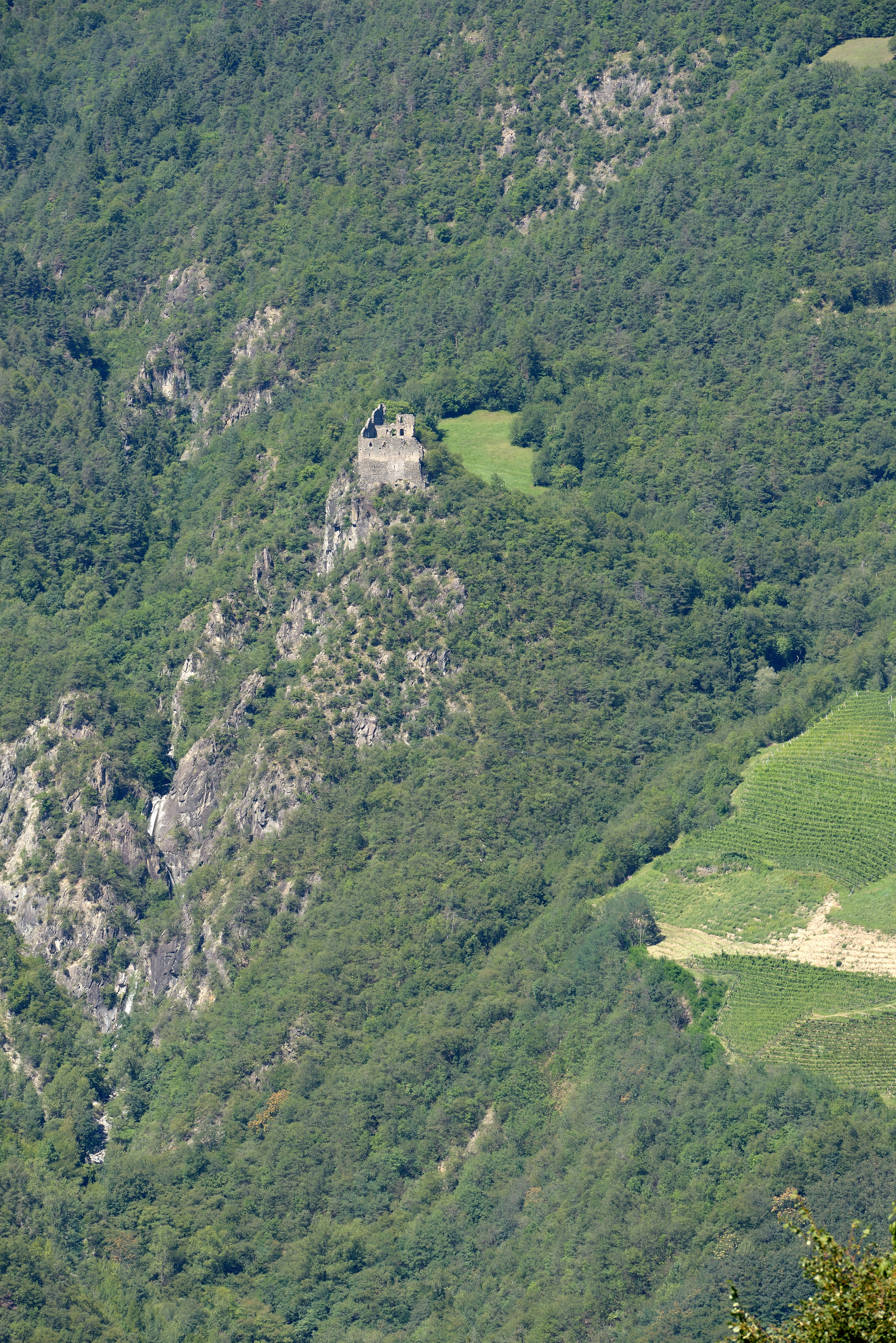 Stein am Ritten manor in Ritten, South Tyrol.